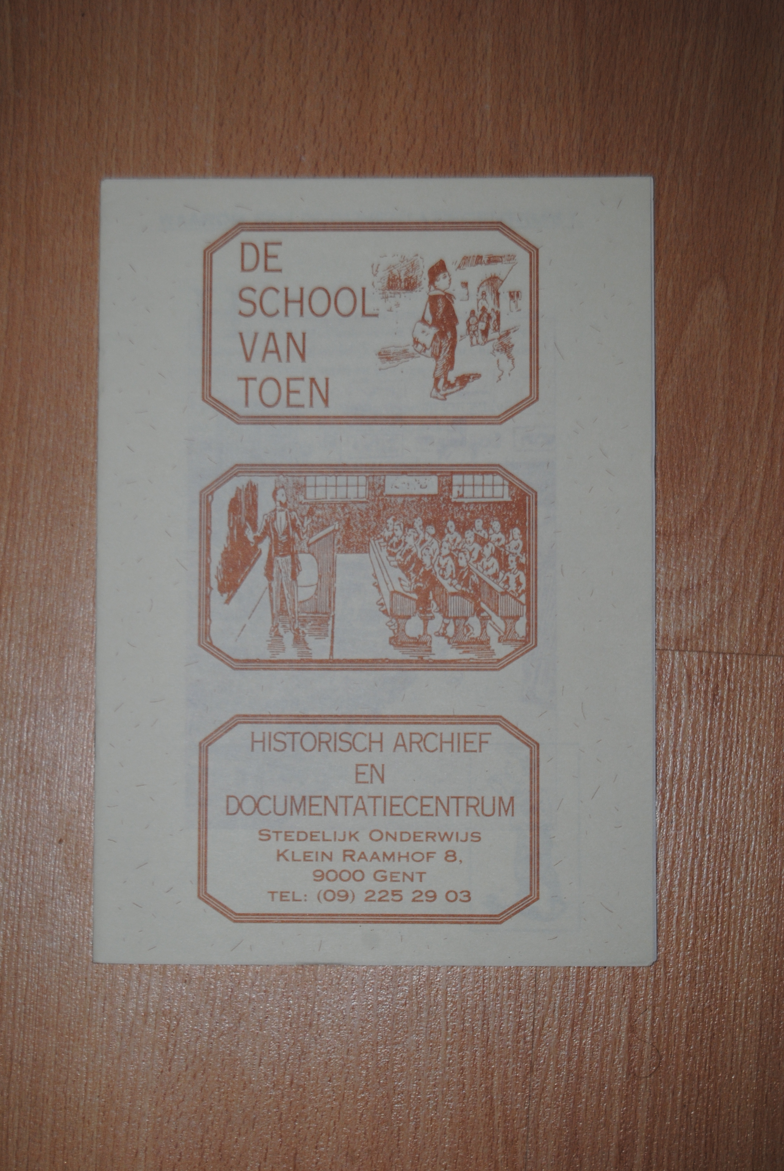 Picture from leaflet of the "de school van toen" museum